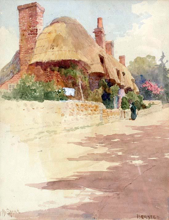 "Bersted", 11 3/8" x 9", watercolour